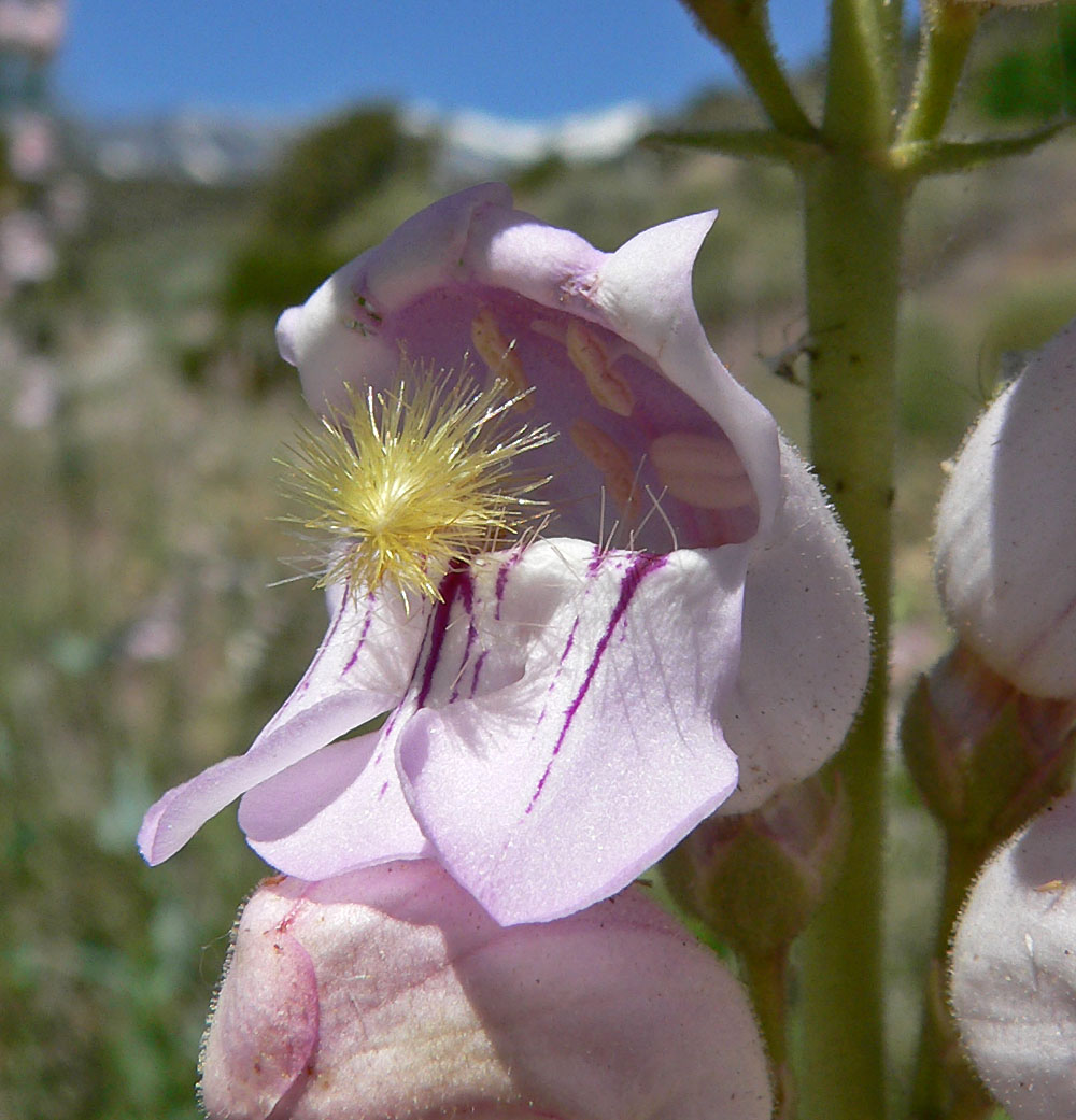 Penstemon palmeri in Kyle Canyon, Spring Mountains, west of Las Vegas, Nevada